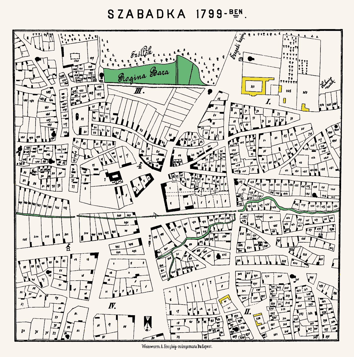 Map of Free Royal City Subotica, from year 1799, a supplement in Monograph about the city